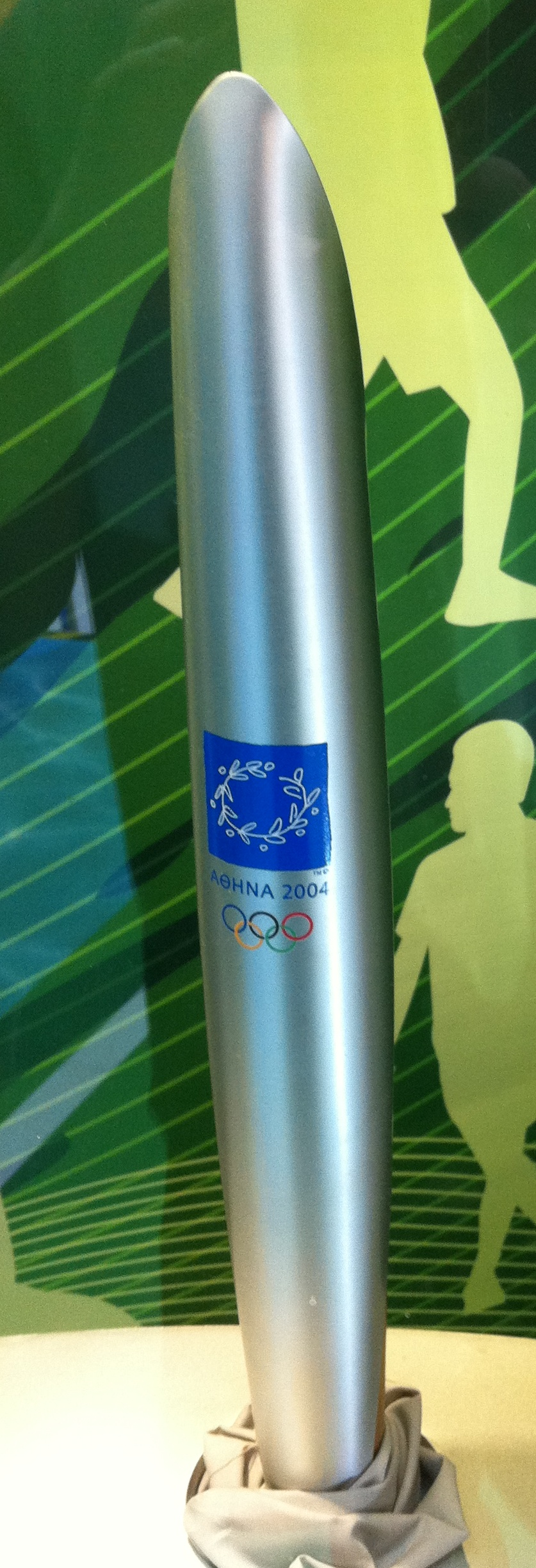 2004 olympic torch